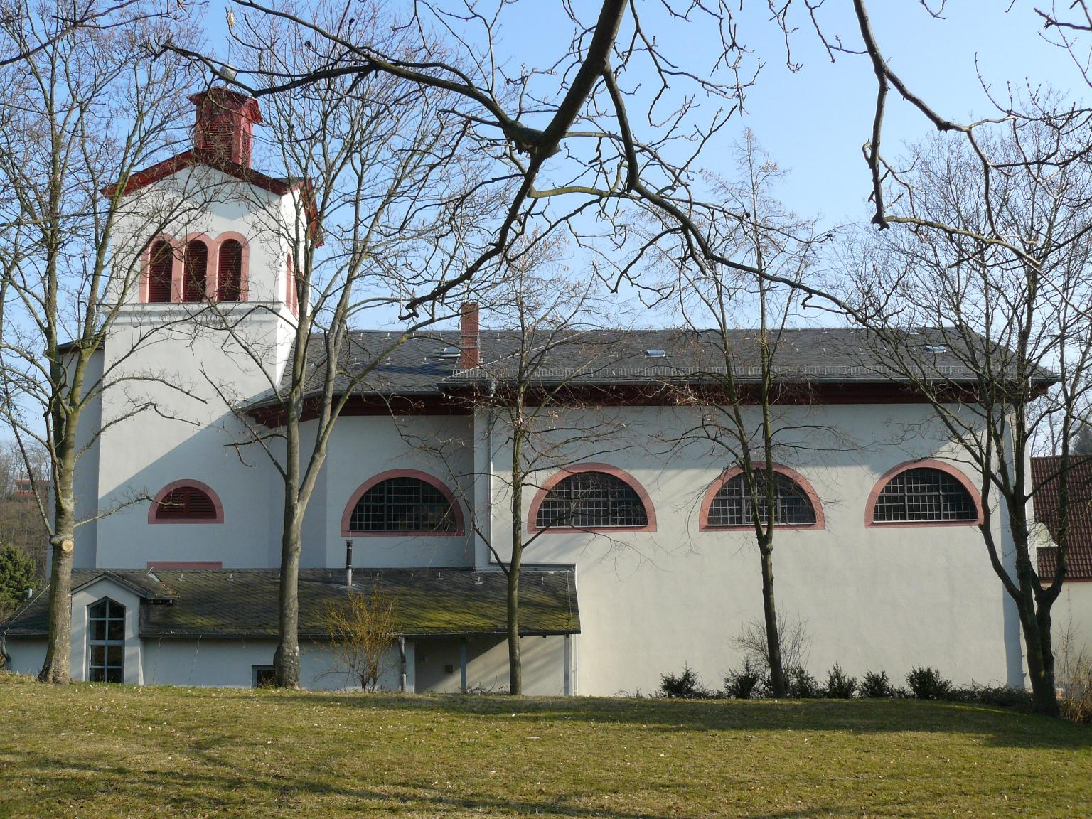 Church St. Achatius in Mainz-Bretzenheim (Zahlbach)